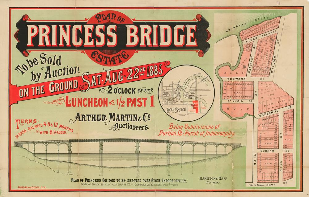 Estate map of Princess Bridge Estate, St. Lucia, Brisbane, Queensland, 1885 Estate map showing allotments for sale on 2nd August, 1885 by Arthur Martin & Co., auctioneers. The land was surveyed by Hamilton and Raff. The plan included a local sketch. The estate map also shows a plan of the proposed Princess Bridge that was to be erected across the Brisbane River at Indooroopilly.